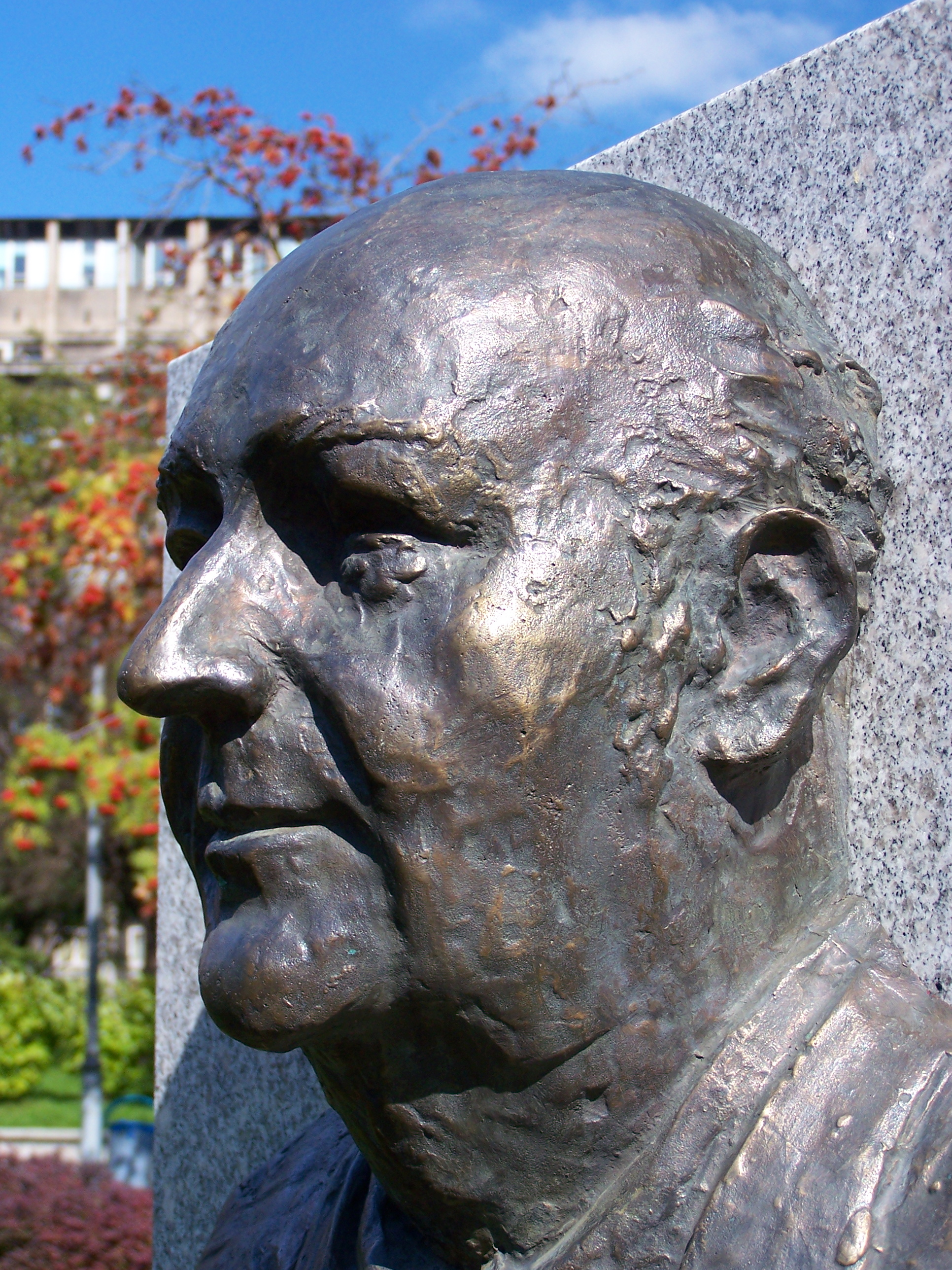 Wilhelm Szewczyk.